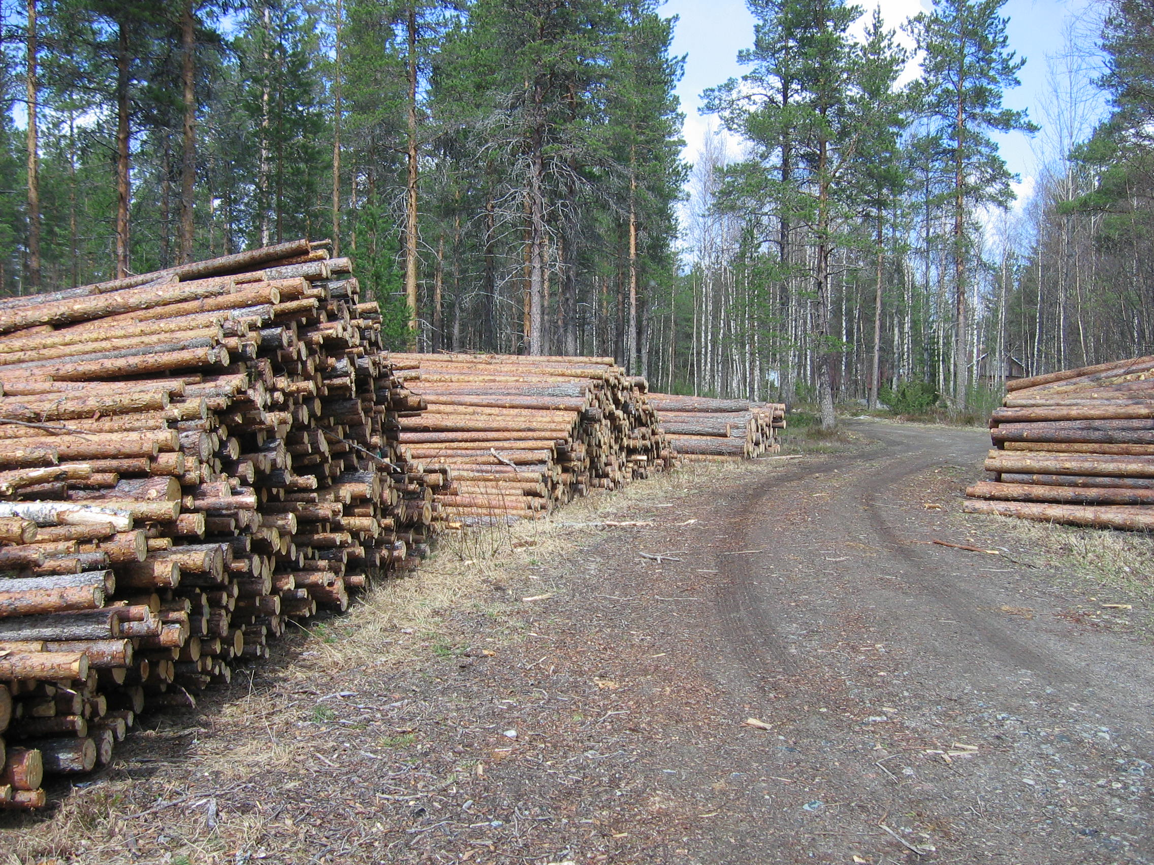 Logs wainting to be transported from the forest in Utajärvi, Finland